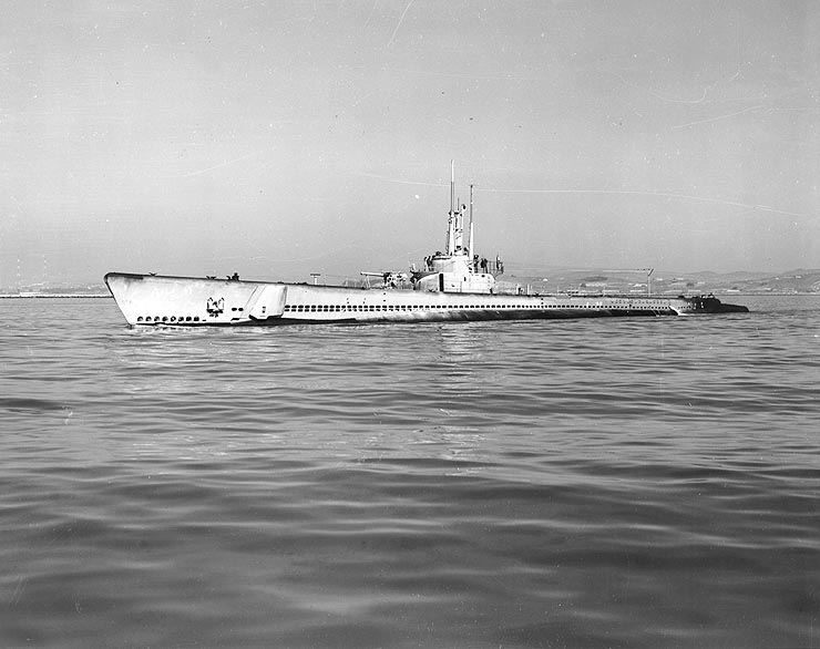 Removed caption read: Photo # NH 98043 USS Balao off the Mare Island Navy Yard, 25 October 1944